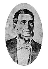 Picture of Luís Gonçalves das Chagas, Baron of Candiota